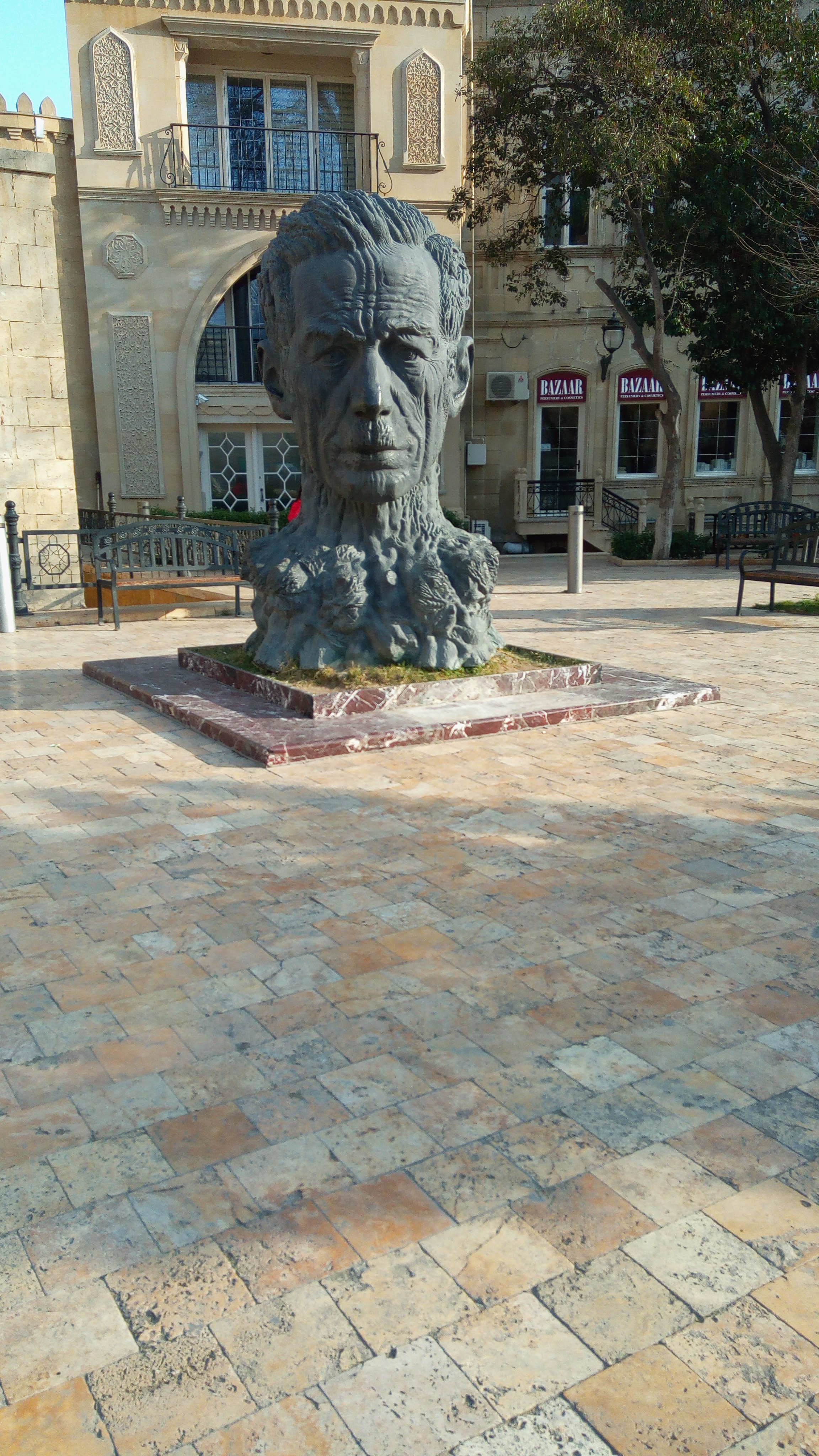 Aliaga Vahid's monument in Ichery Sheher, Baku, Azerbaijan.